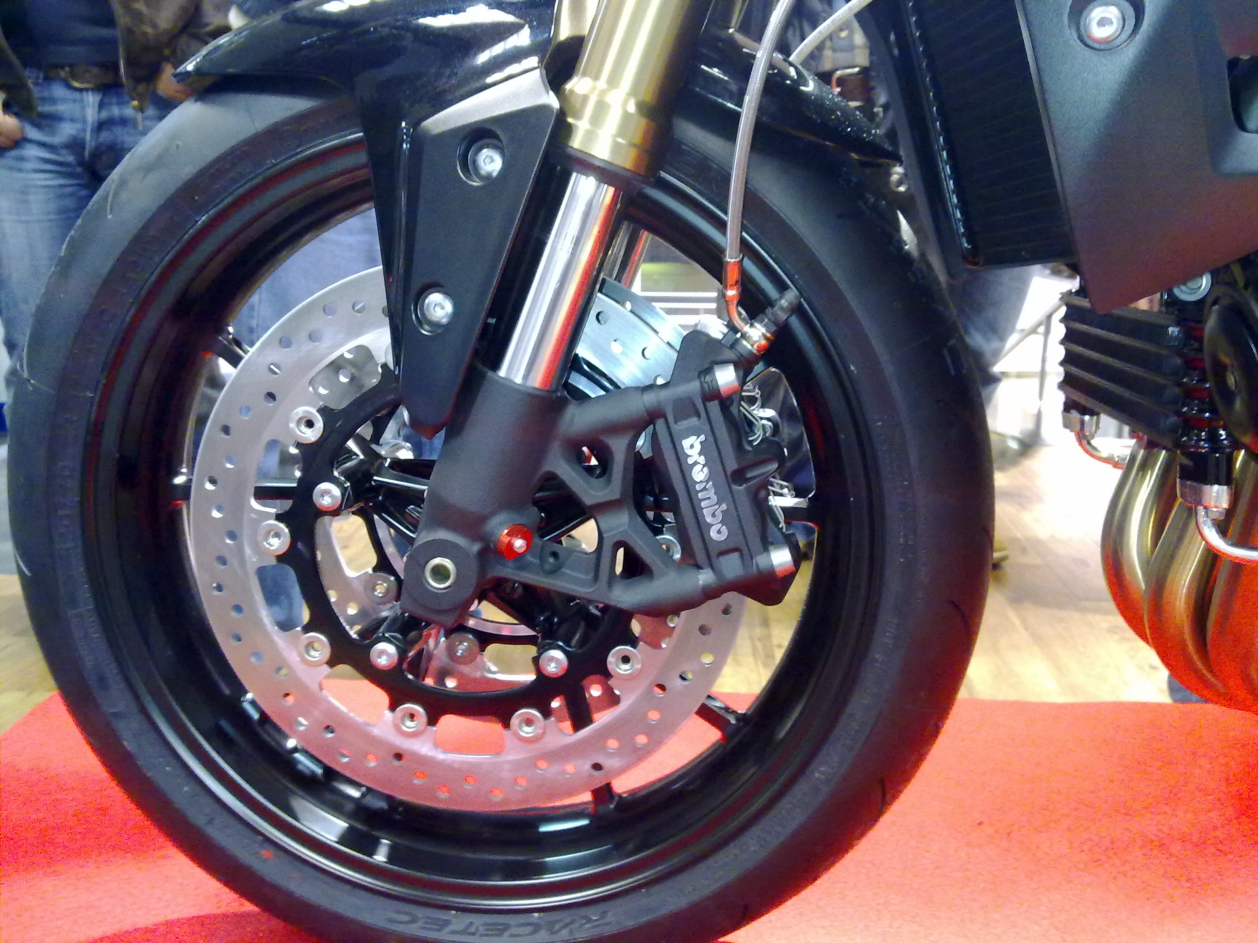 Front brake Caliper Brembo of a Triumph Speed Triple 2011.